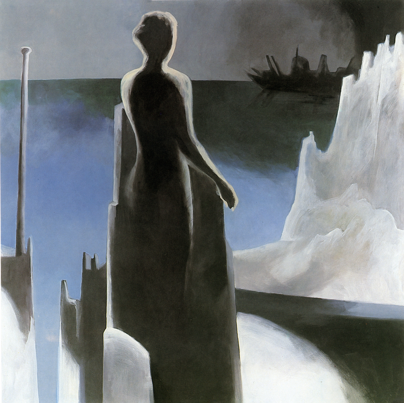 Europa, acrylic on canvas, 200 x 200 cm, 1991